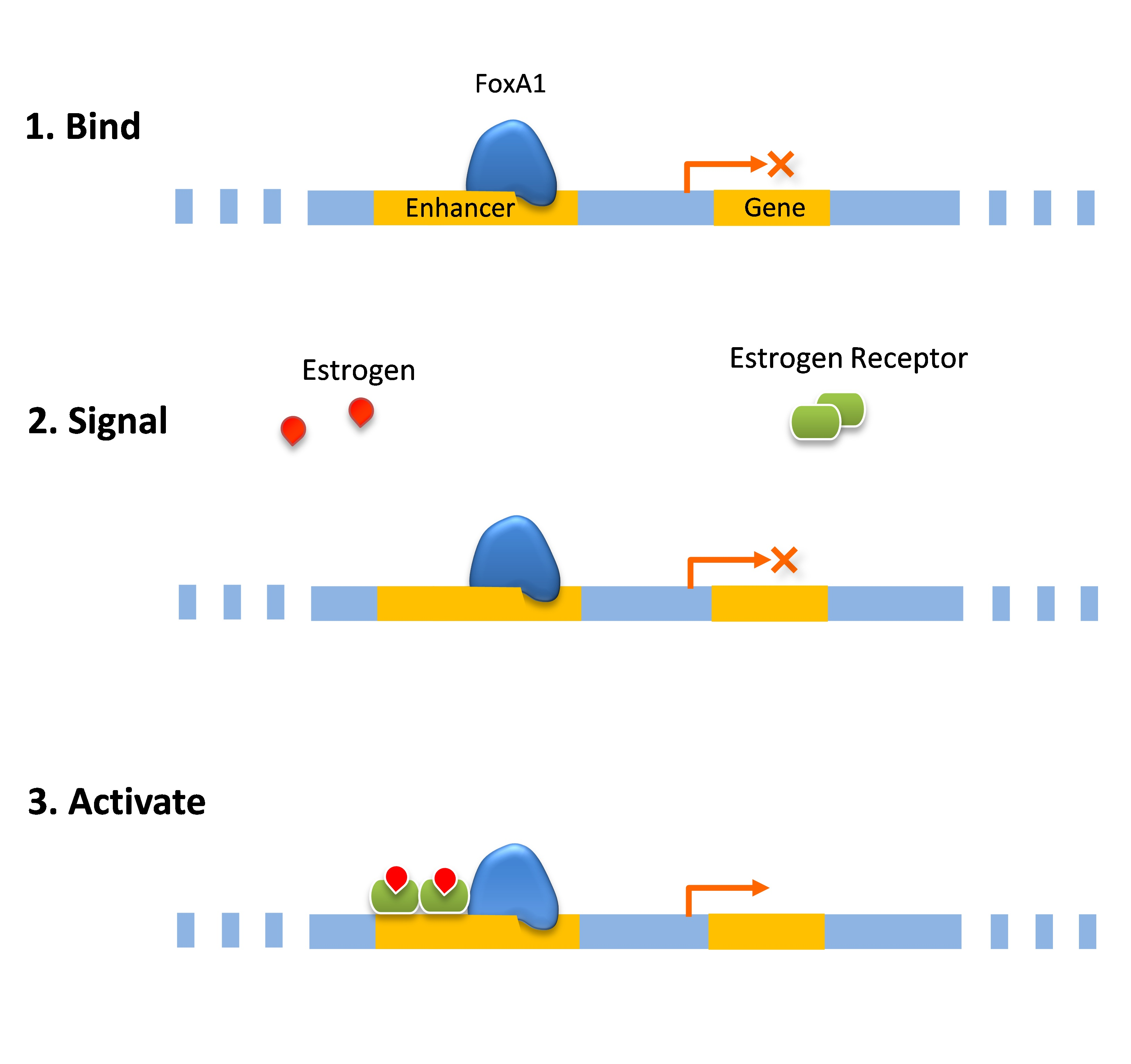 Pioneer Factor binding can help the cell respond the external signal quickly.